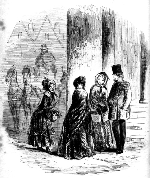 The Little Old Lady Phiz (Hablot K. Browne) 1853 Etching 4 1/8 x 4 1/8 inches on a page of 8 7/16 x 5 inches Facing p. 23, the close of the third chapter of Dickens's Bleak House